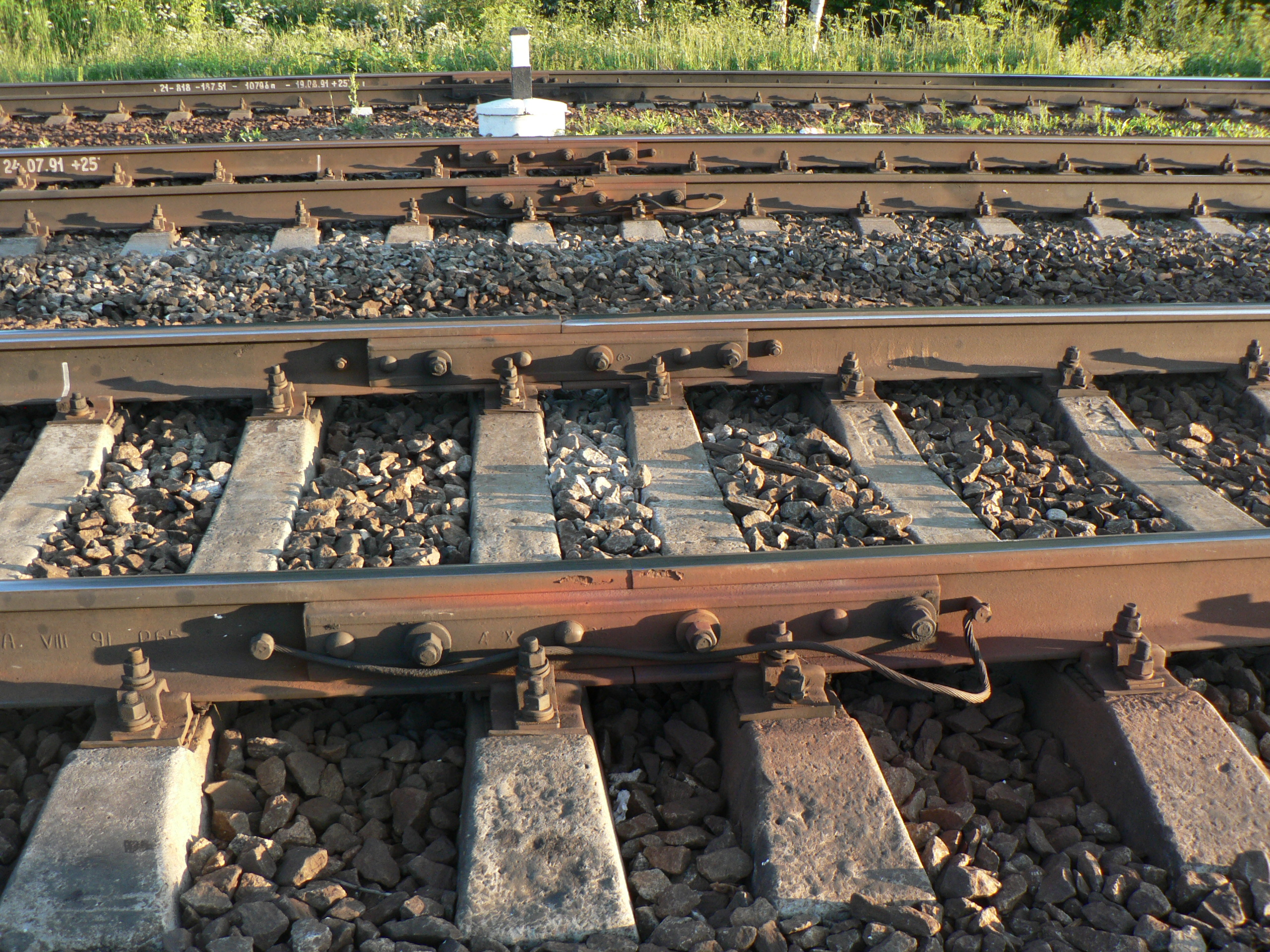 Junction of compensating rails on rail track. Near Malino platform on Oktyabrskaya railway, Russia.